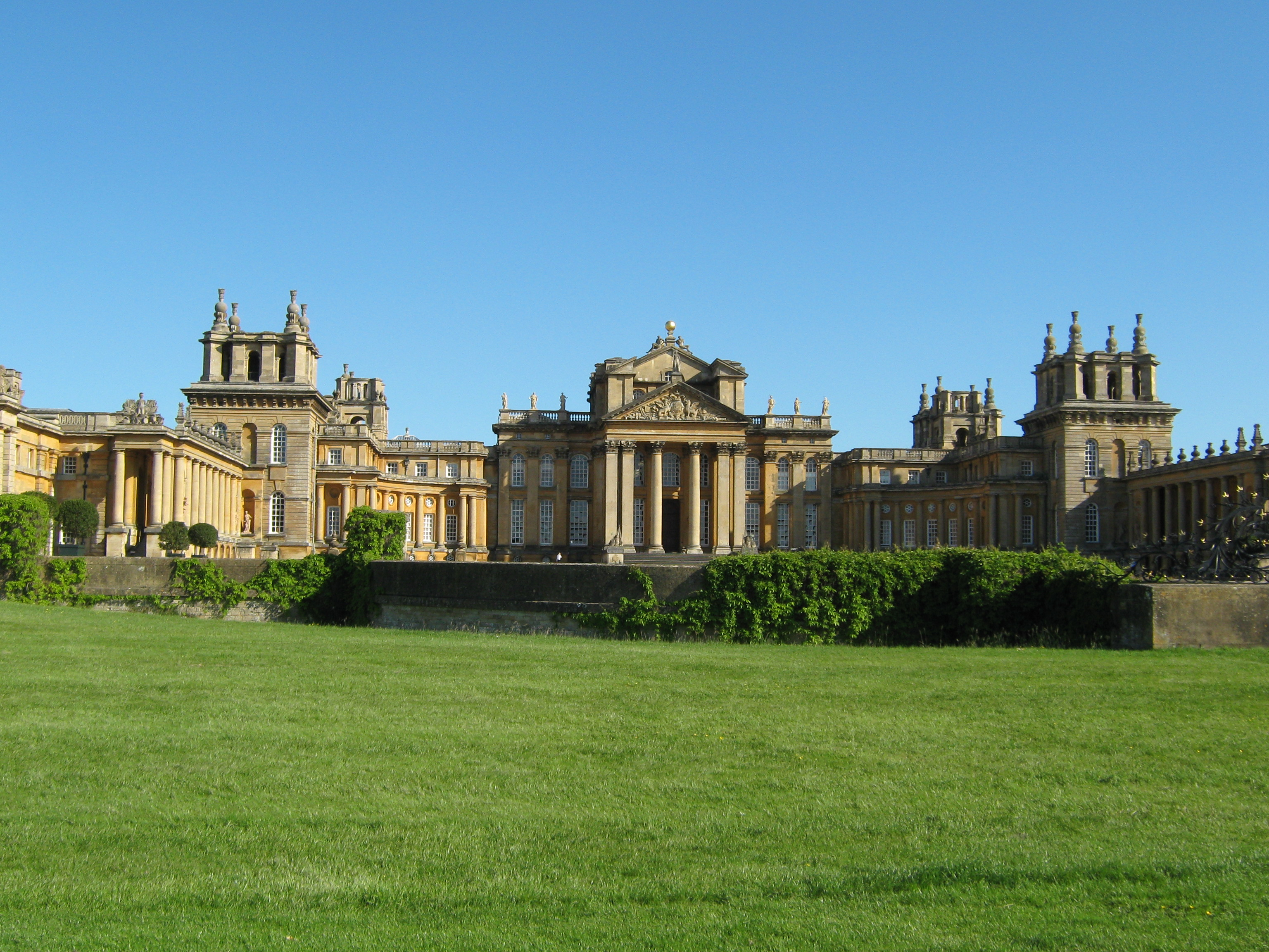 The south view of Blenheim Palace, Woodstock, Oxfordshire